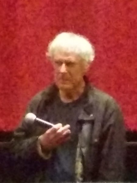 Dennis Cooper at a Q&A session for Like Cattle Towards Glow at the Alamo Drafthouse in San Francisco, California, United States